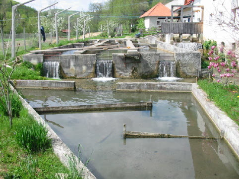 A fish farm. Šentrupert near Mirna, Slovenia.